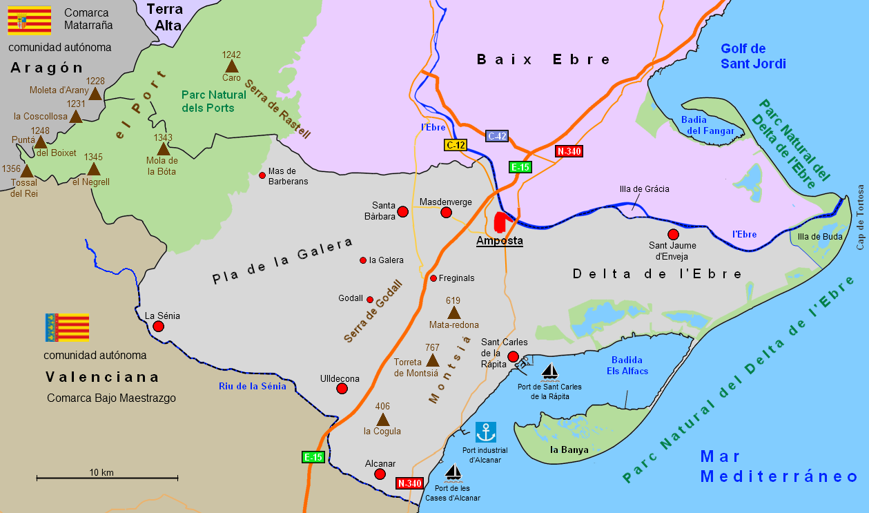 Map of the comarca Montsiá, Catalonia, Spain